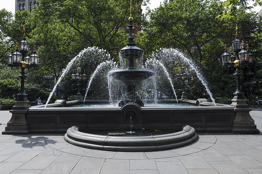 New York City 2012